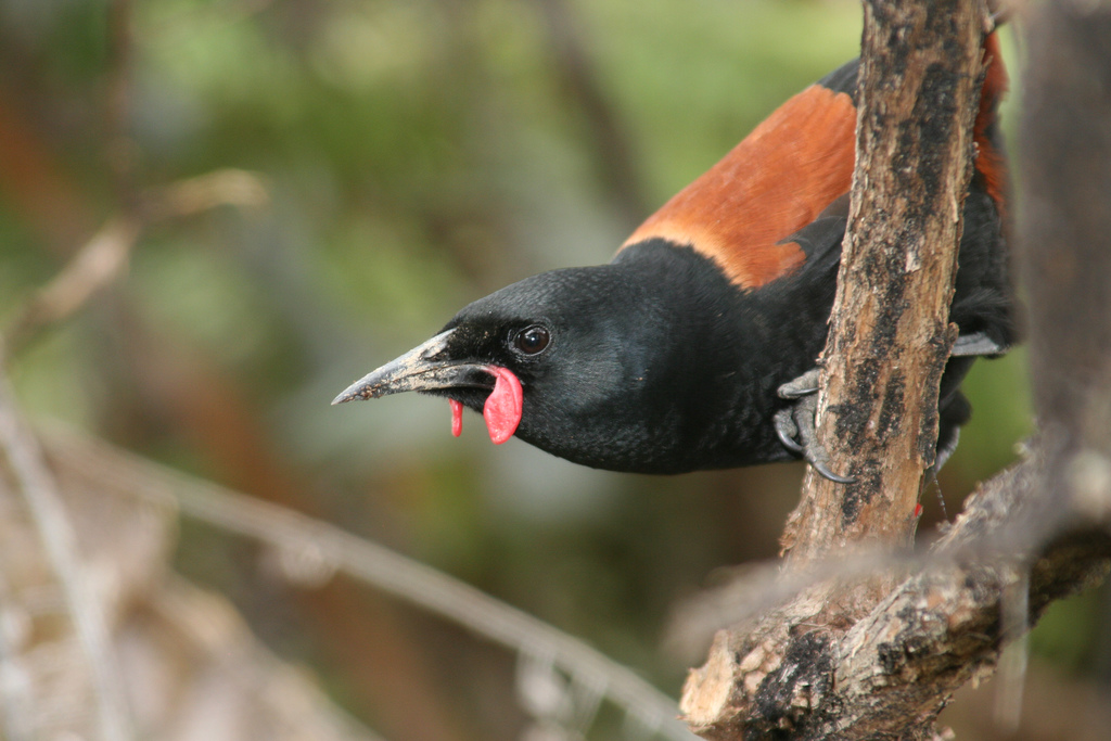 North Island Saddleback Philesturnus rufusater on Tiritiri Matangi Island, New Zealand.